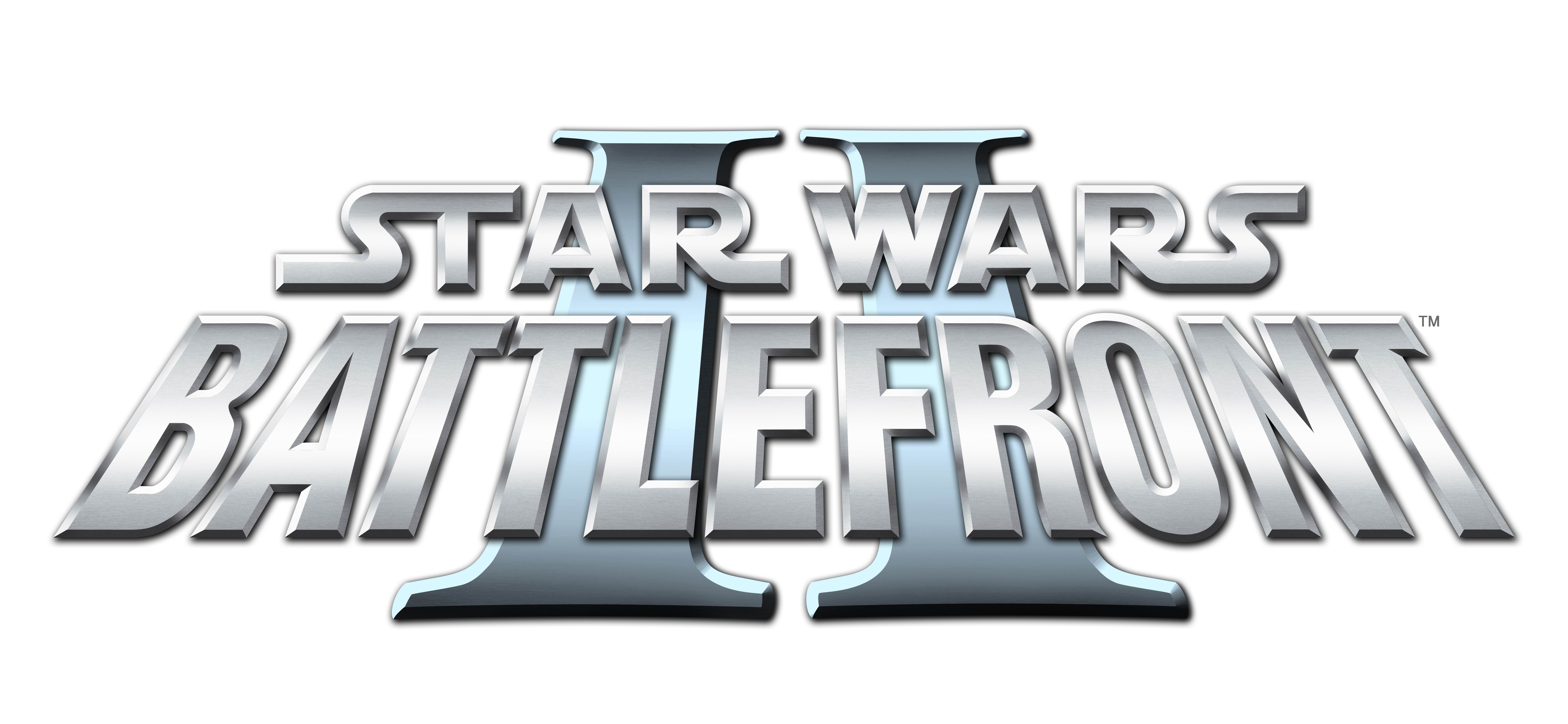 Logo of Star Wars Battlefront II.